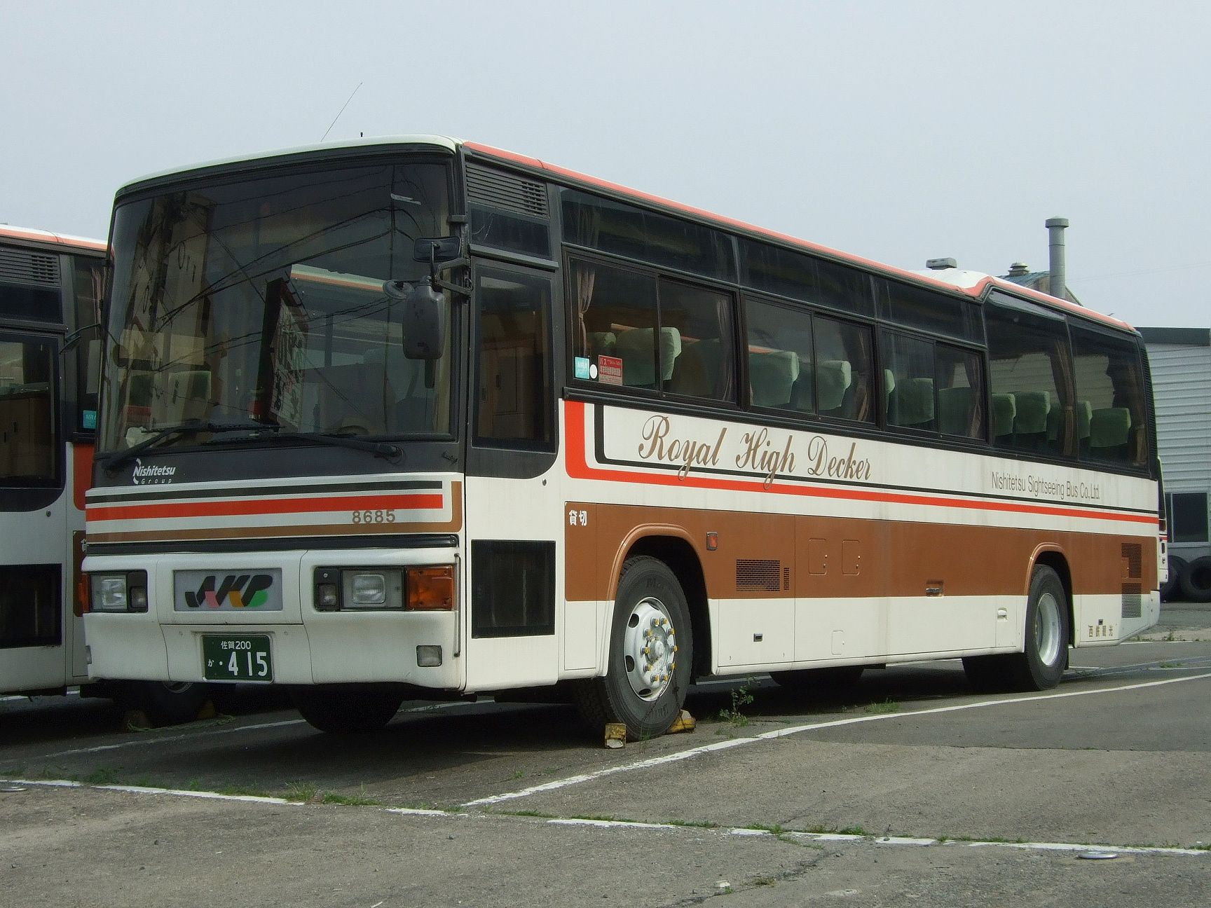 Hino S'elega with Nishinippon Shatai Kogyo body for Nishitetsu Kanko Bus Saga Branch #8685 (license plate: Saga 200 KA 415) in Kurume City, Fukuoka Prefecture, Japan